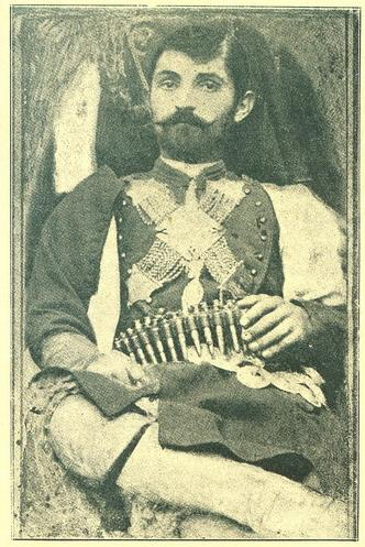 portrait of Kuzo Stefov